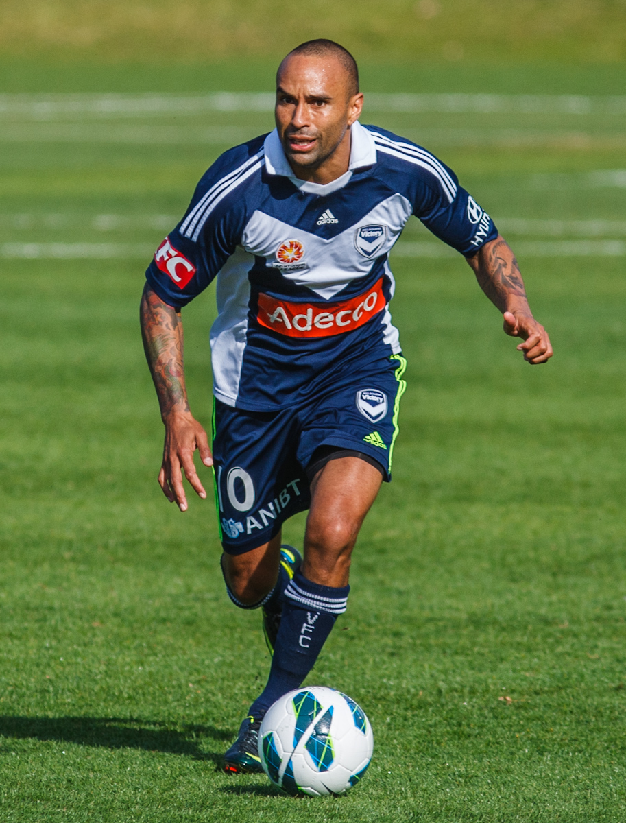 Archie Thompson playing in a pre-season game between the Central Coast Mariners and Melbourne Victory on 16/09/2012.